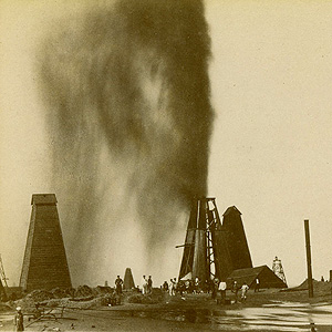 Oil fields in Baku (Picture: Georgian National Museum)